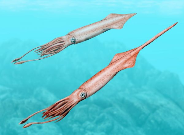 Youngibelus